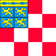 Municipal flag predating the 1997 rearrangement of municipalities